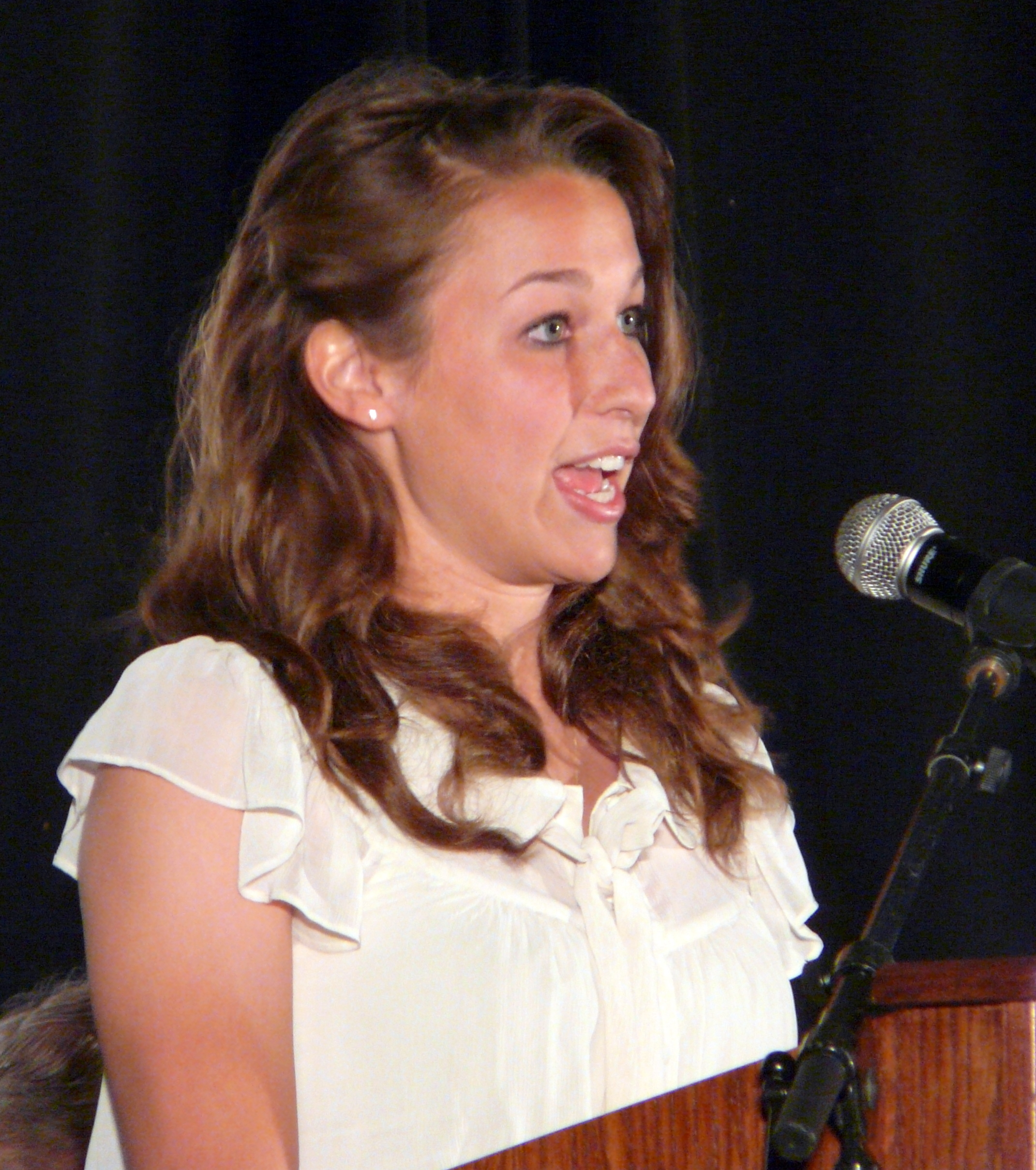 Alyssa Lagonia (2008 photo) - renominated again for 2009